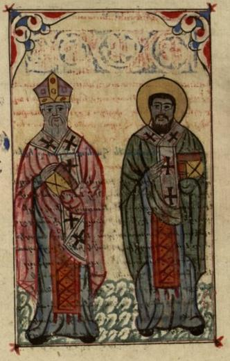 Saint Athanasius and Cyril of Jerusalem. Athanasius of Alexandria asks questions, Cyril of Jerusalem reponds.